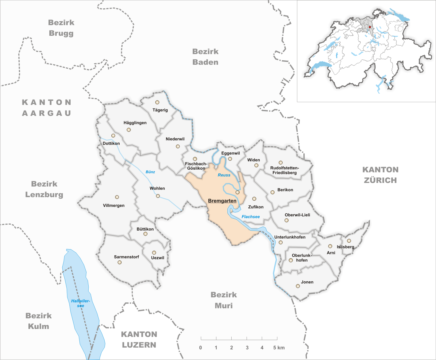 Municipality Bremgarten